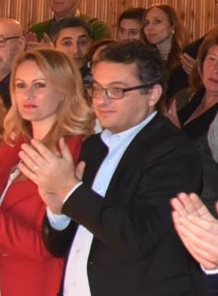 Tufan Erhürman, Prime Minister of Northern Cyprus.